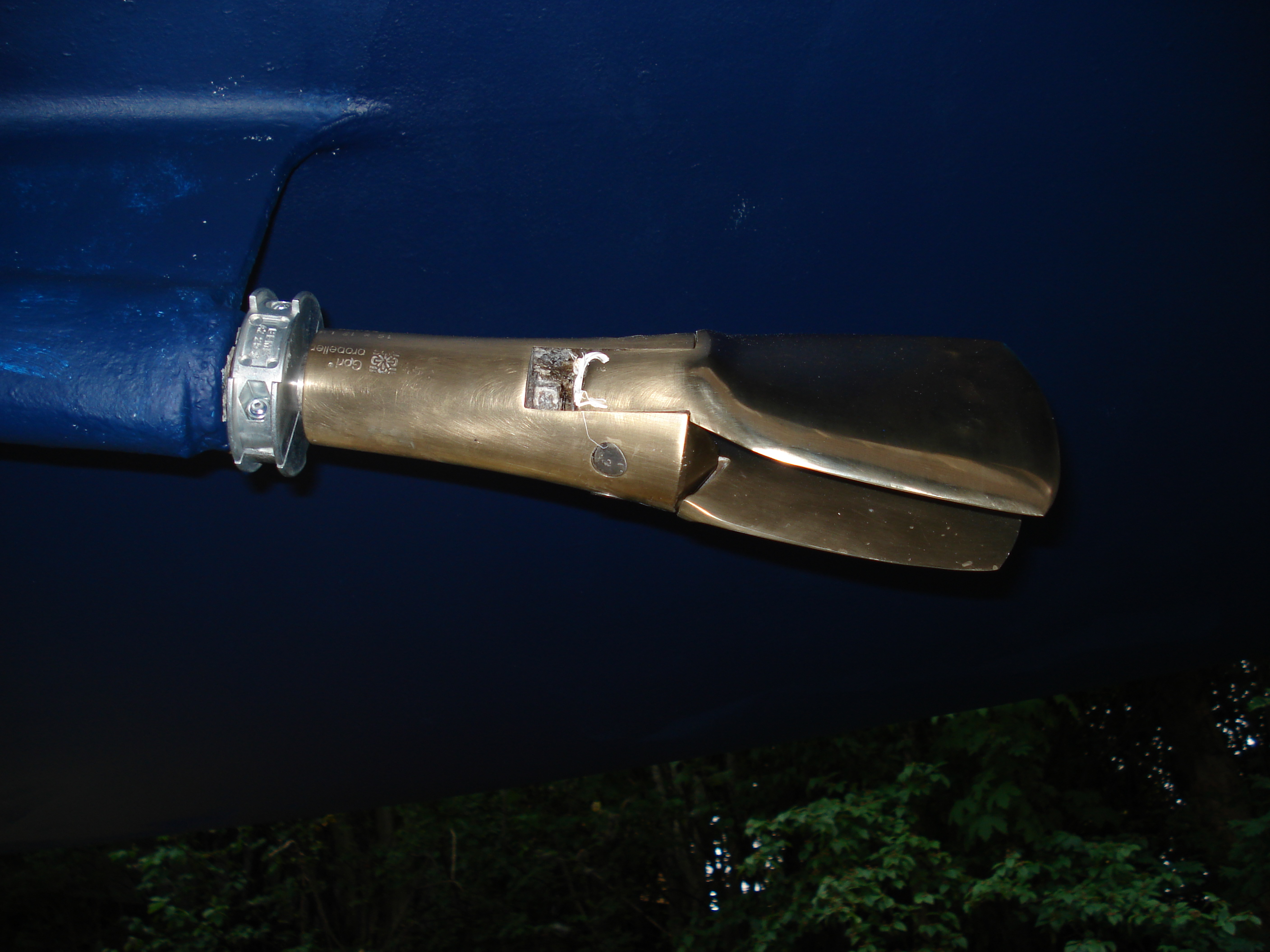 A Gori two bladed folding propeller on a 36 foot sailingyacht.